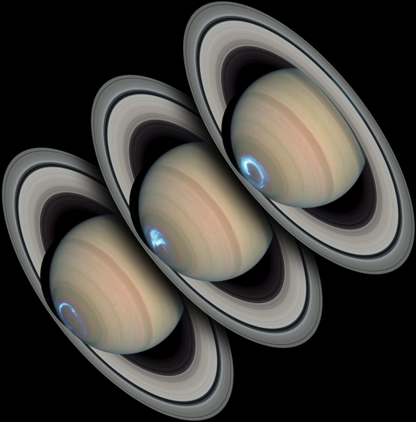 Photomontage of Saturn with false-colour images of ultraviolet aurora taken with the Imaging Spectrograph on January 24, 26, and 28 superimposed on an image of visible light taken with the Advanced Camera for Surveys on March 22, 2004 from NASA's Hubble Space Telescope